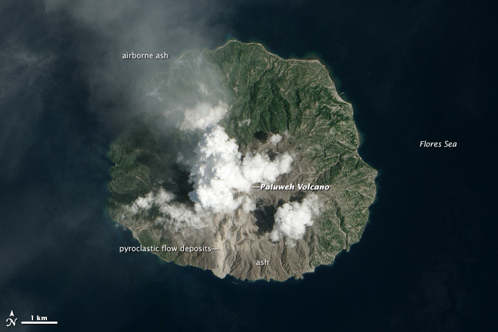 Original description: "The image above was collected on February 12, 2013, by the Advanced Land Imager (ALI) on the Earth Observing-1 (EO-1) satellite. According to the Darwin Volcanic Ash Advisory Center (VAAC), Paluweh has experienced minor ash and gas emissions almost daily since the initial blast."